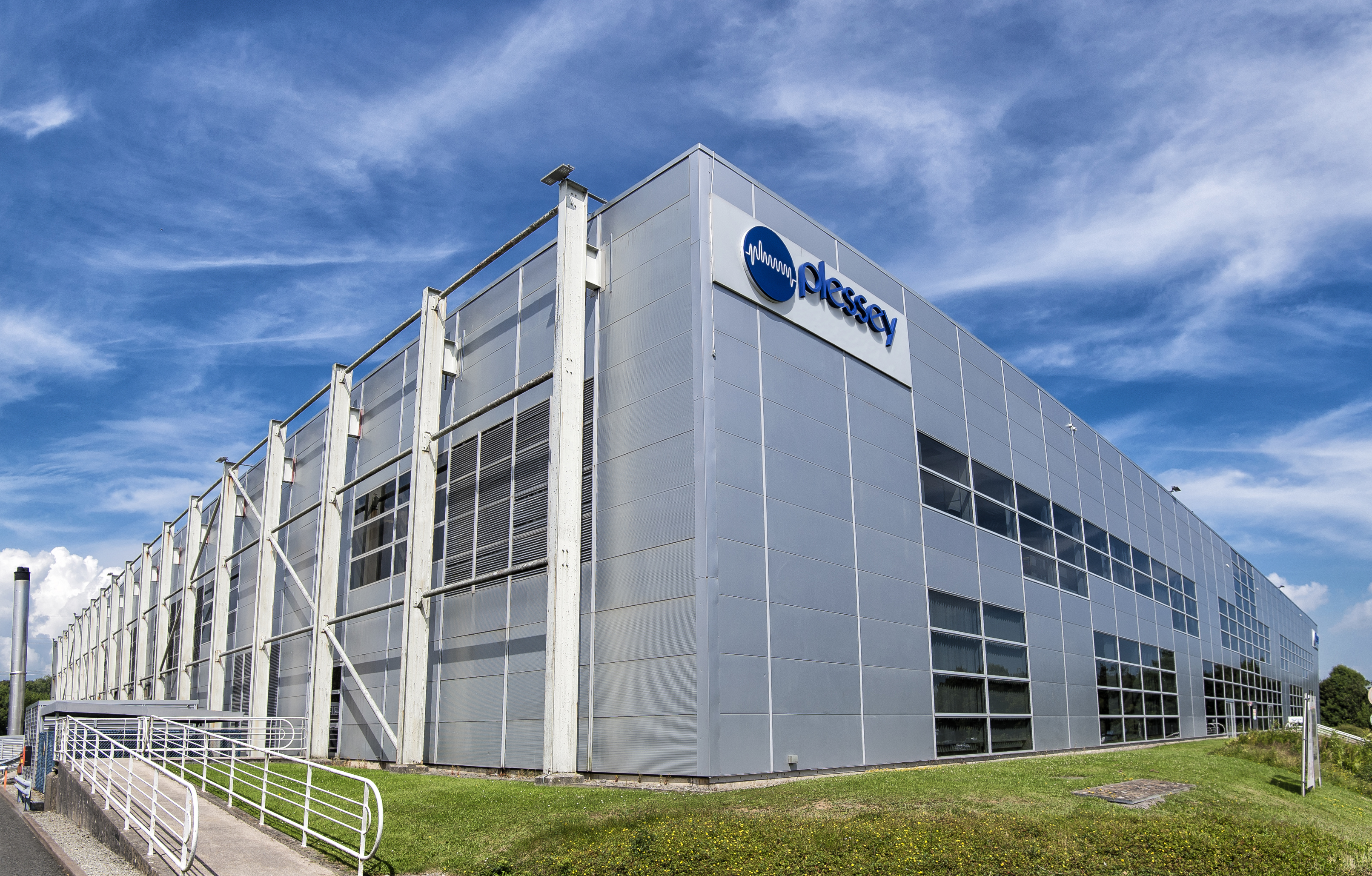 Plessey Semiconductor Ltd HQ in Roborough, Plymouth